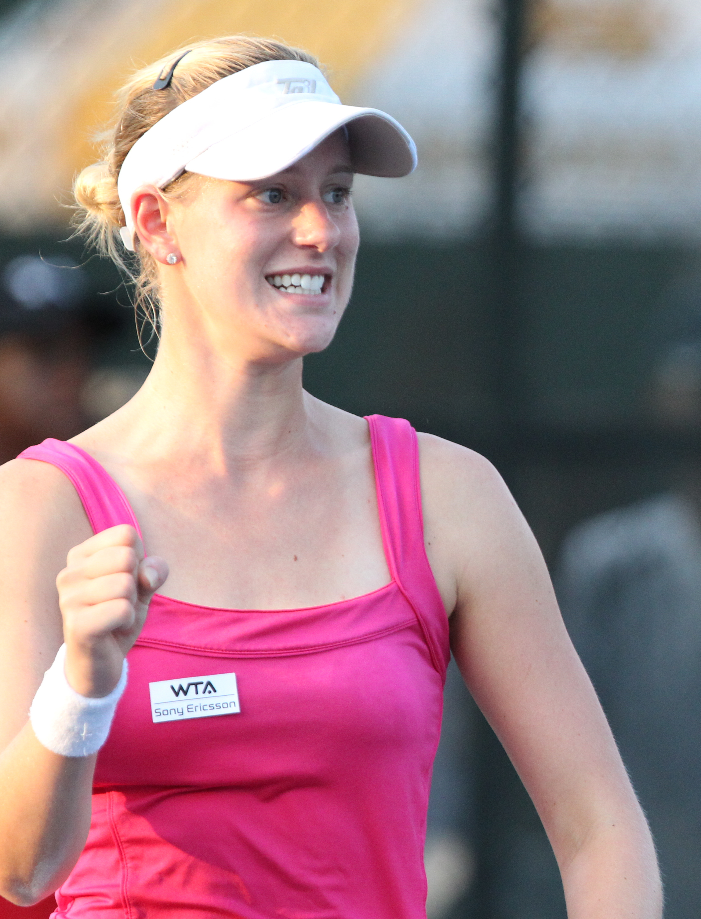 Citi Open Tennis July 28, 2011